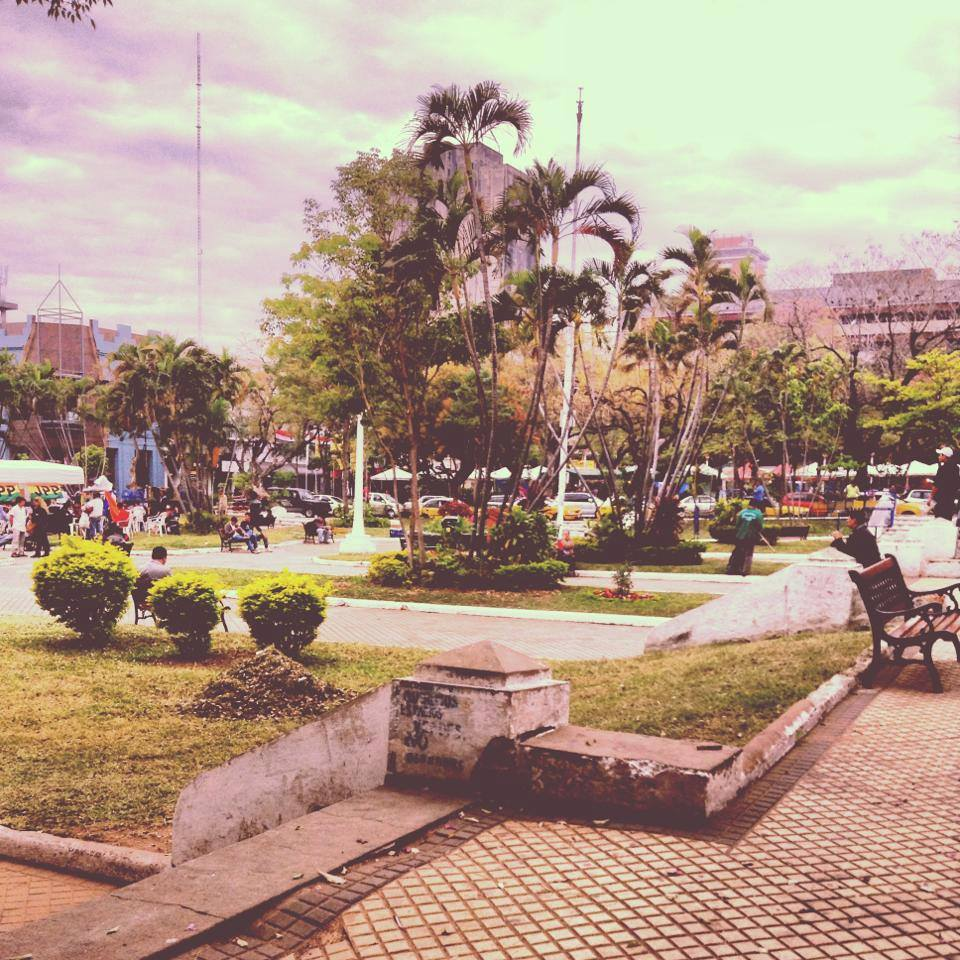 It's the symbol of the bound between the architecture and the idea of an ecologic city